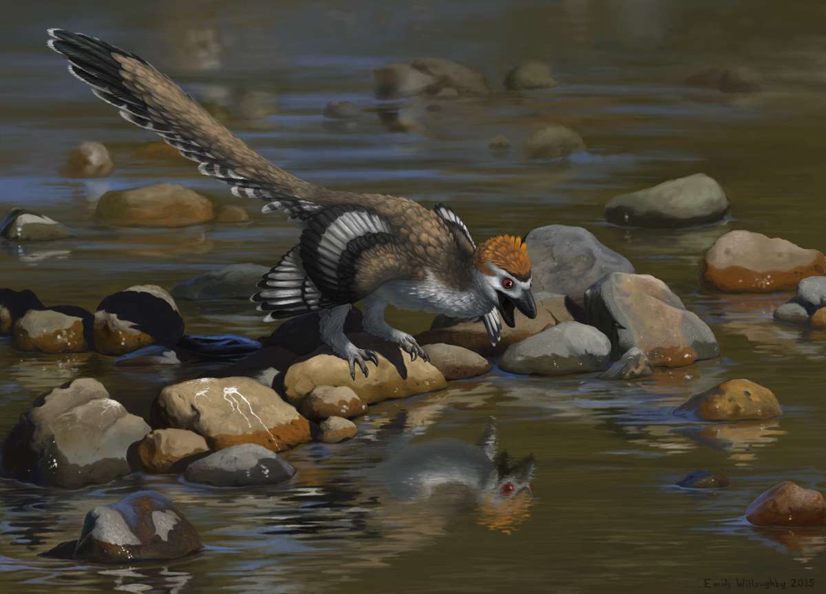 Life restoration Zhenyuanlong suni, a large winged dromaeosaur from Early Cretaceous Liaoning described in 2015, depicted using its wings in a threat display.